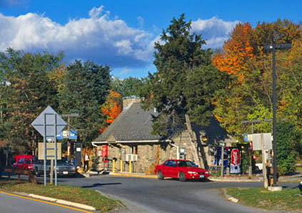 Shenandoah service station (subsequently closed) on Taconic State Parkway in East Fishkill, NY, USA